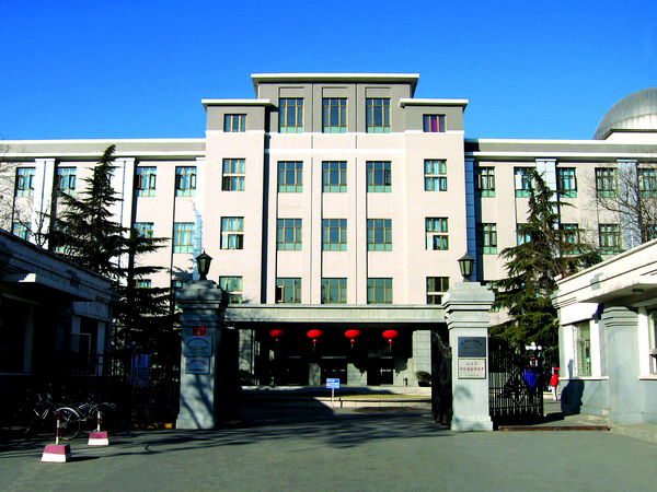 Façade of Huiwen Middle School before renovation in 2014